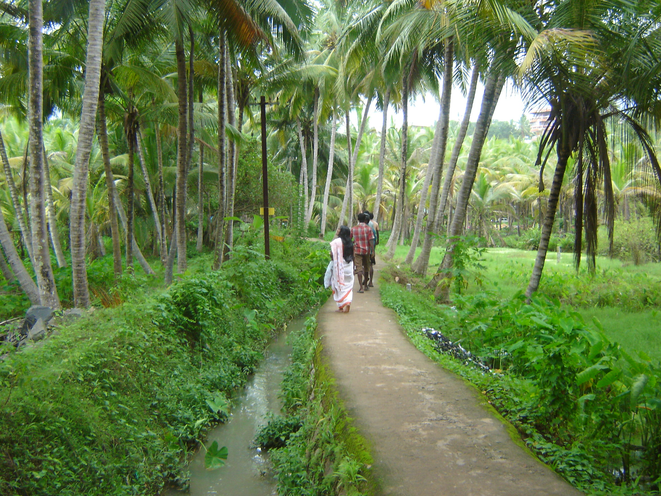 Palm grove in Kovalam, Kerala, India